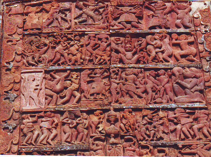 Radhabinode temple, Jaydev Kenduli, terracotta carving detail